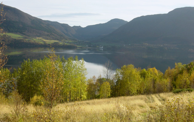 Gjemnes: View from the North across the Batnfjord towards Skeisdalen.